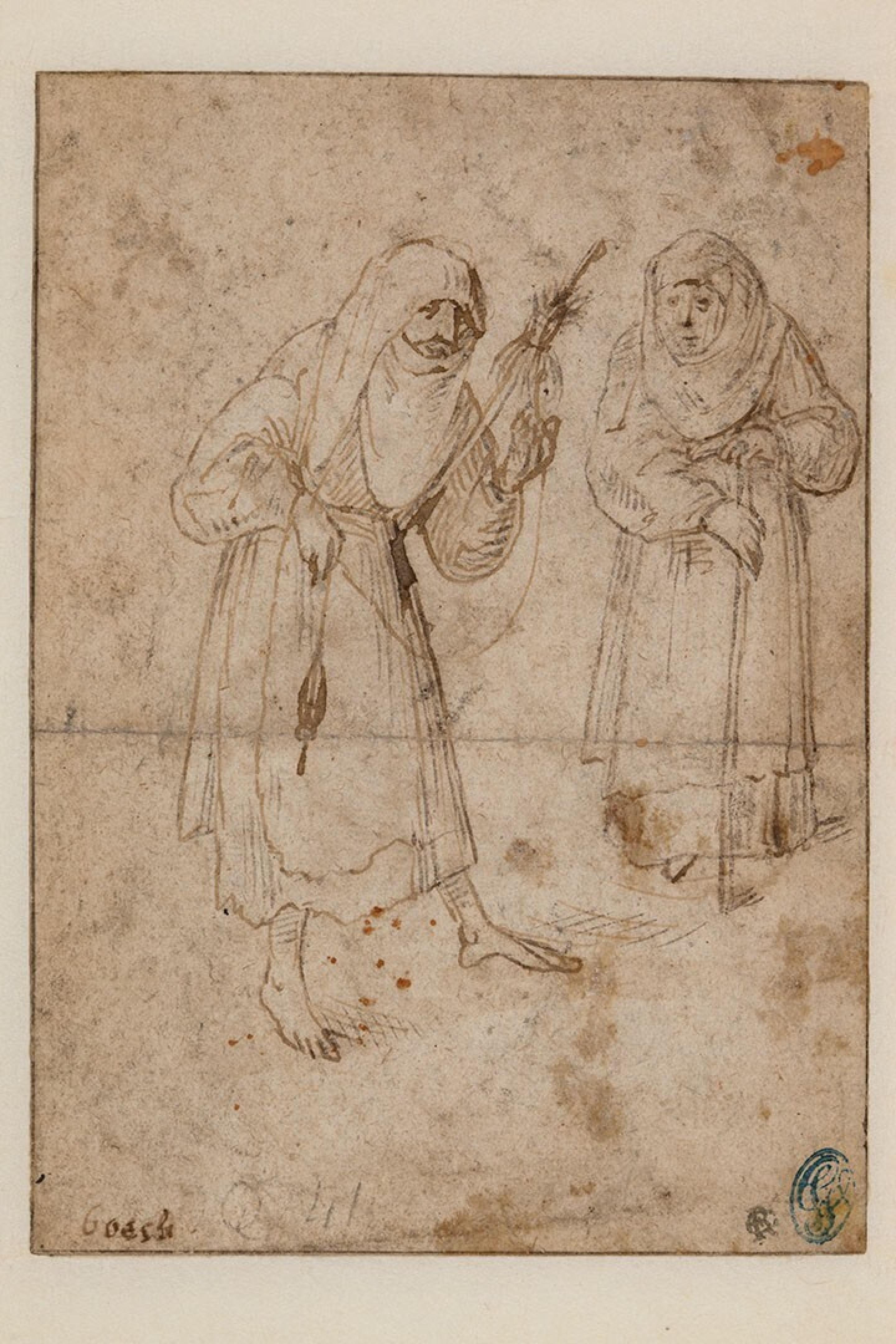 Front of a two-sided drawing. For the reverse, see File:A Woman Spinning and an Old Woman by Jheronimus Bosch (reverse).jpg.